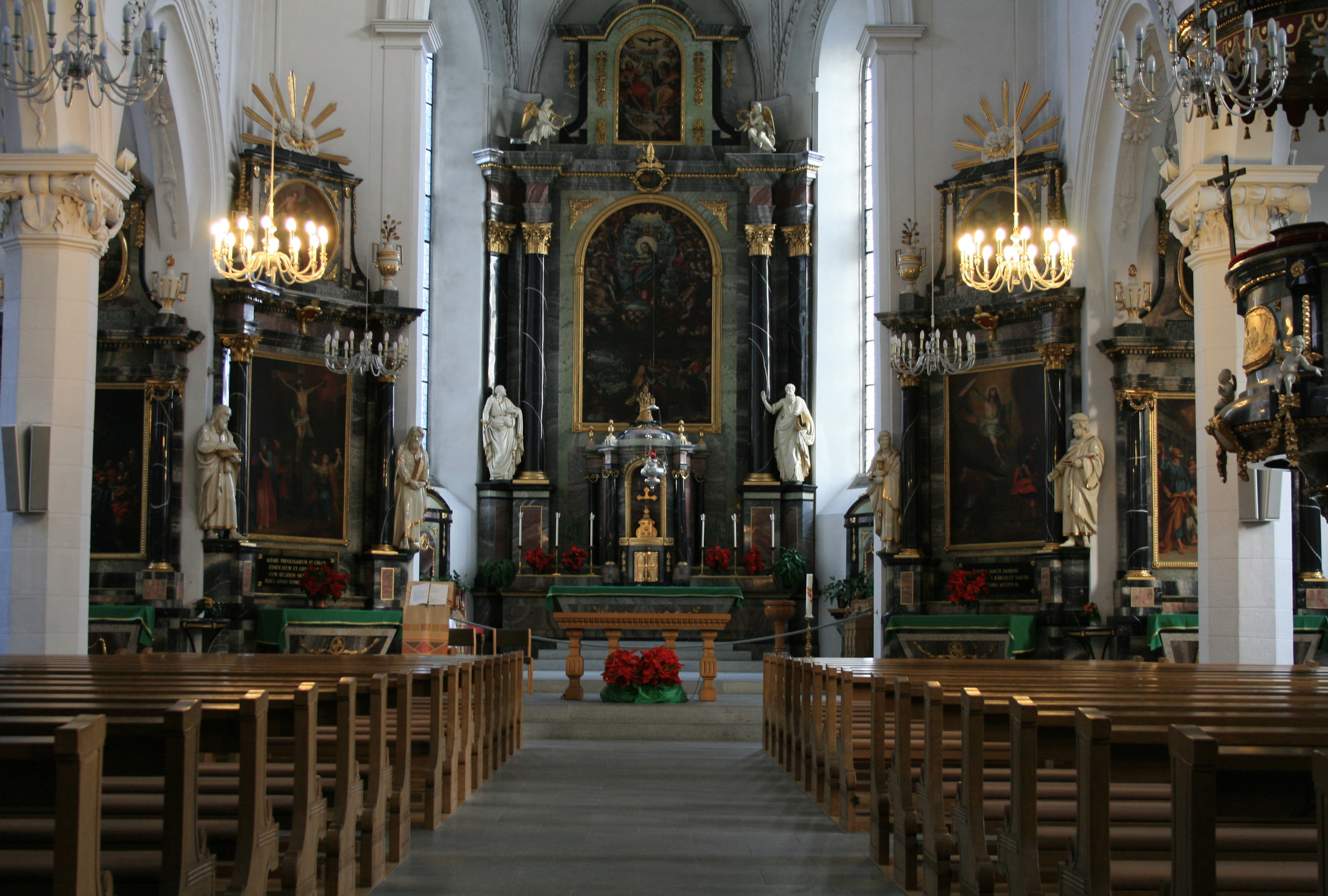 Inside of rom.-cath. Church of Baden AG, Switzerland